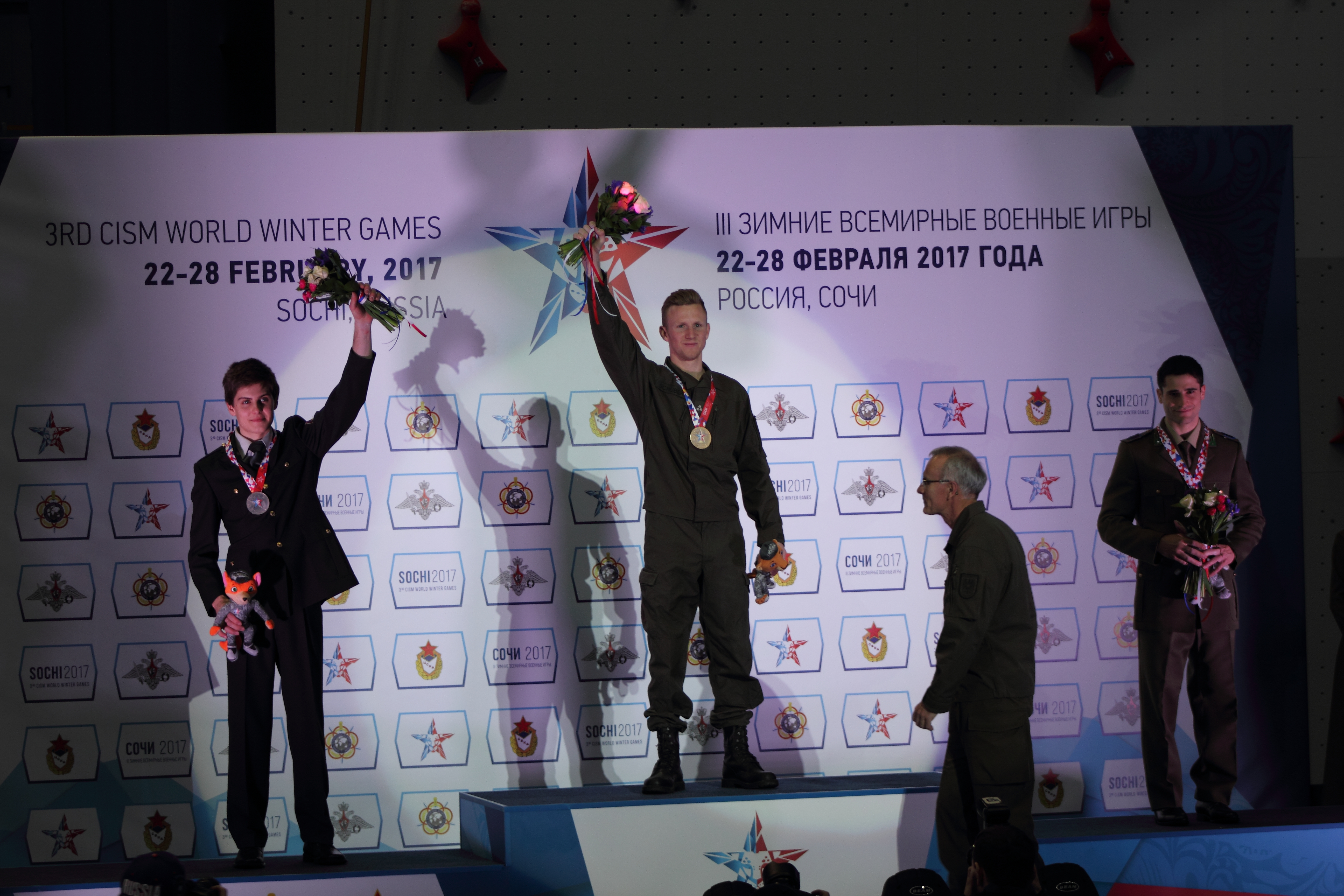 Podium in mens sport climbing, lead, 3rd CISM WInter Military World Games. From left: Domen Škofic from Slovenia (bronze); Jackob Schubert from Austria (gold); Marcello Bombardi from Italy (silver).